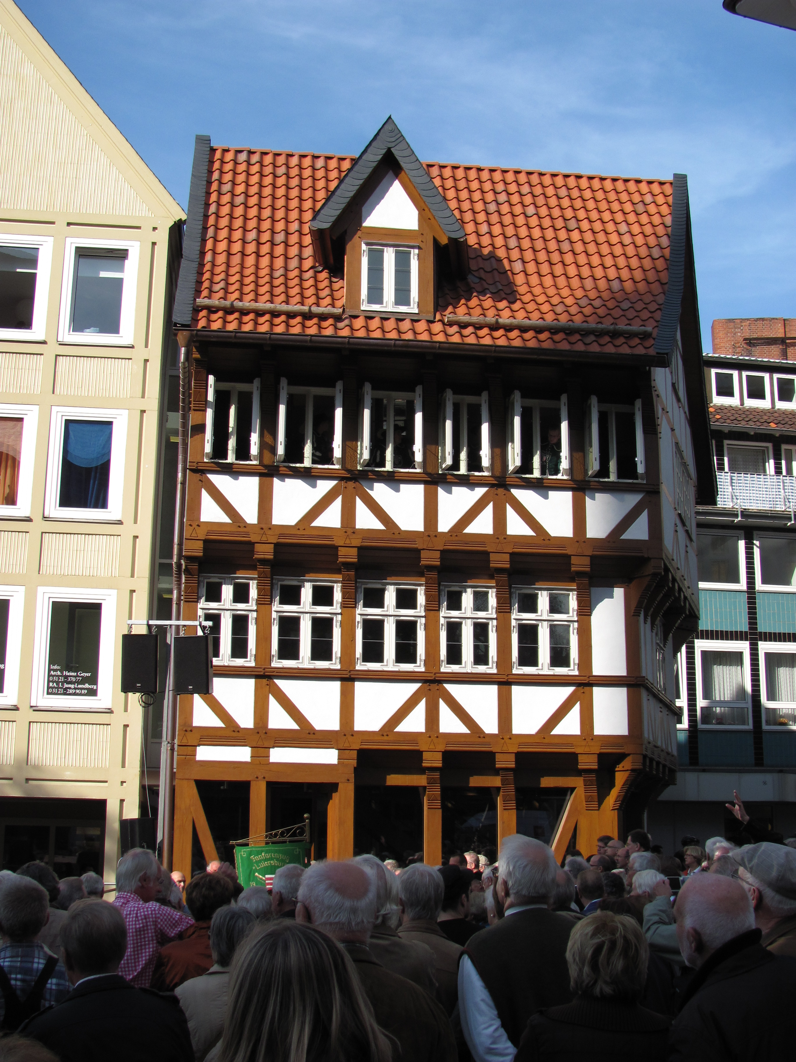 Upended Sugarloaf (built 1509, destroyed 1945, rebuilt 2010), Hildesheim, Germany